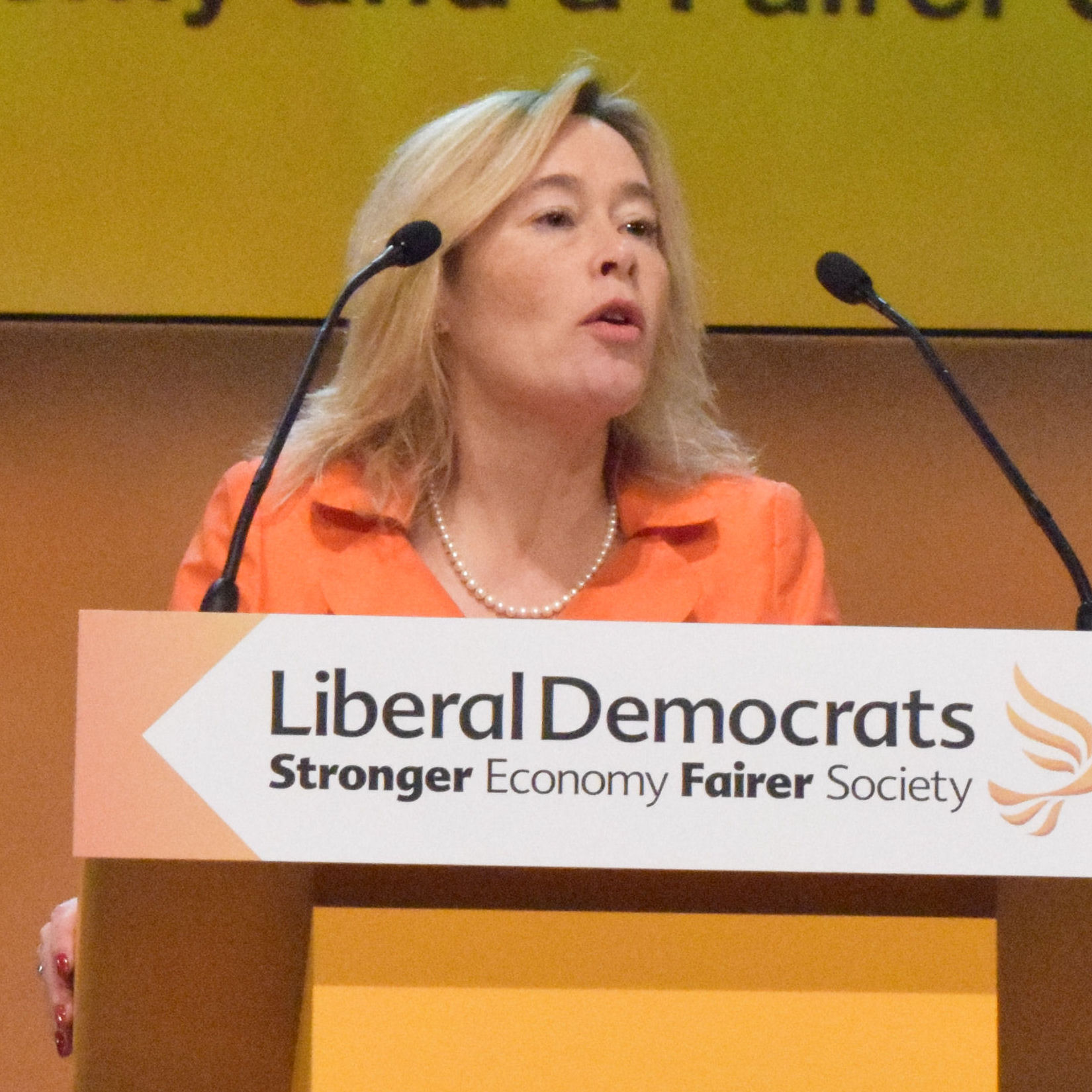 Julie Elizabeth Smith speaking at a Liberal Democrat conference in the Clyde Auditorium, Glasgow.